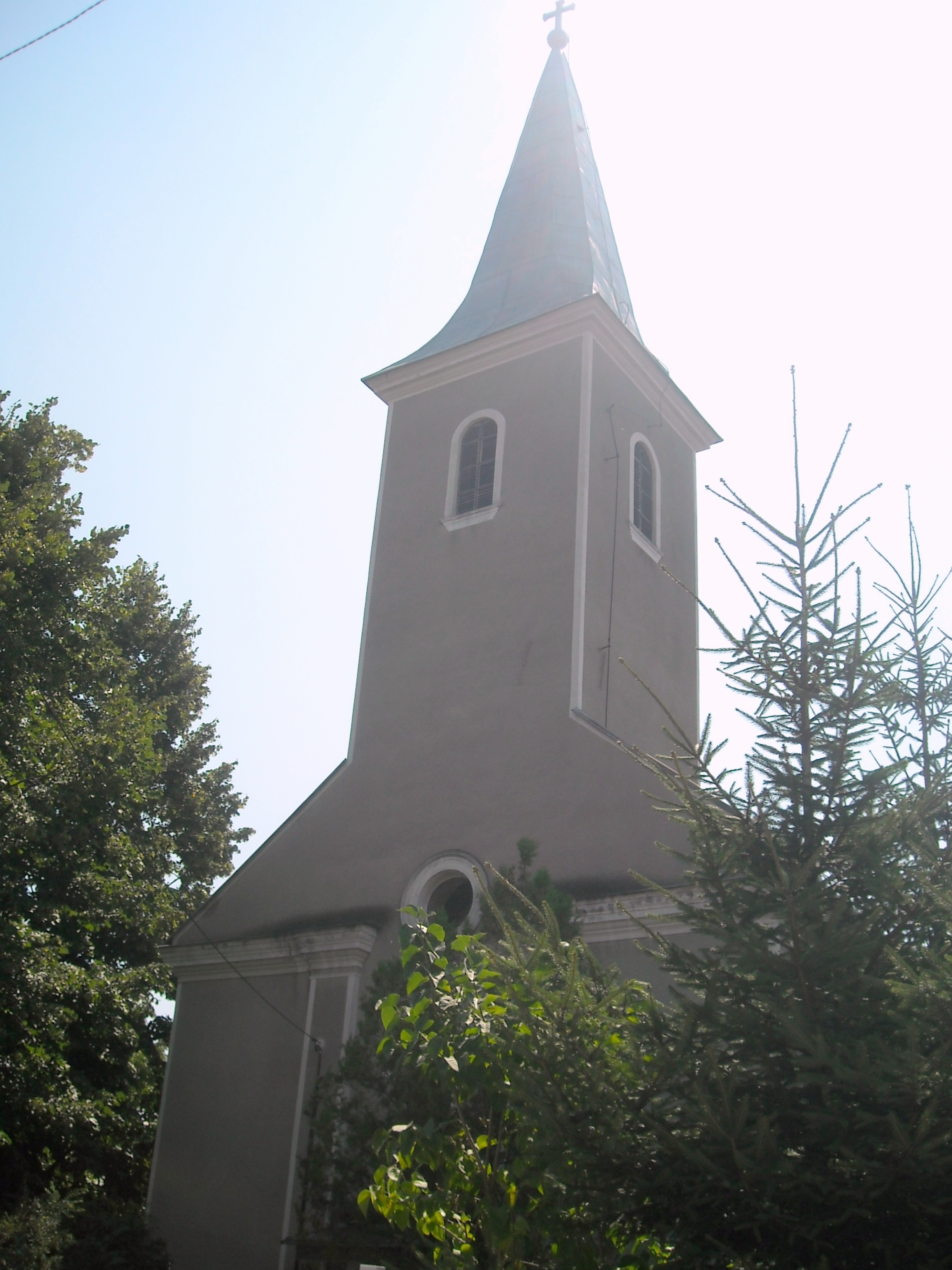 Roman Catholic church in Haţeg/Hátszeg, Romania